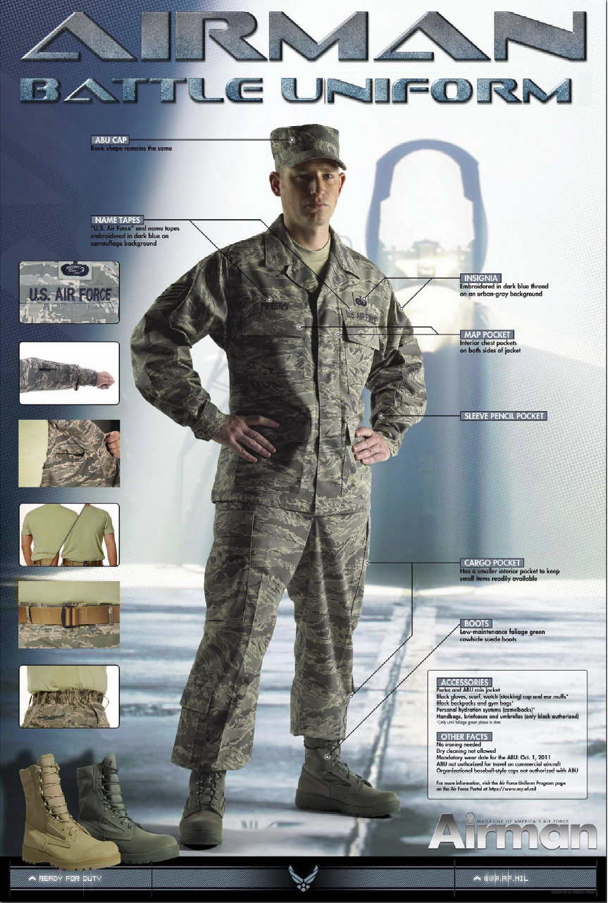 Picture with Airman Battle Uniform features highlighted in detail from Airman Magazine published by the US Air Force.